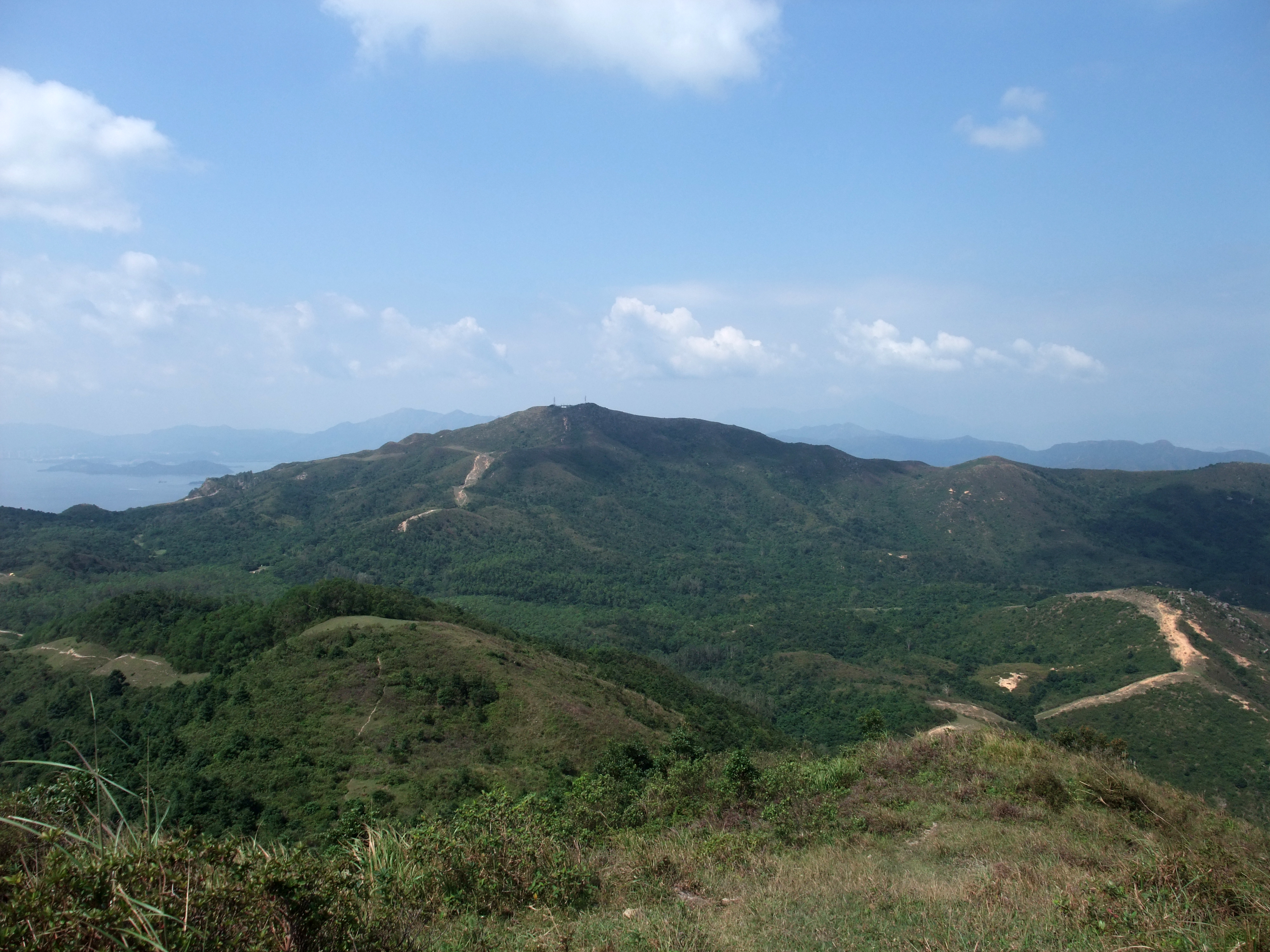 Photo of Shek Uk Shan